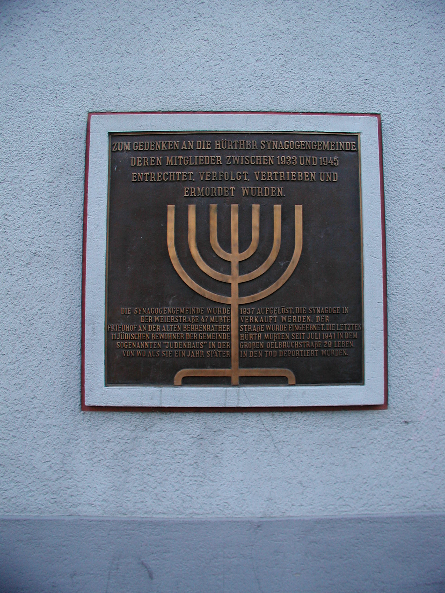 Plaque commemorating the former location of a synagogue